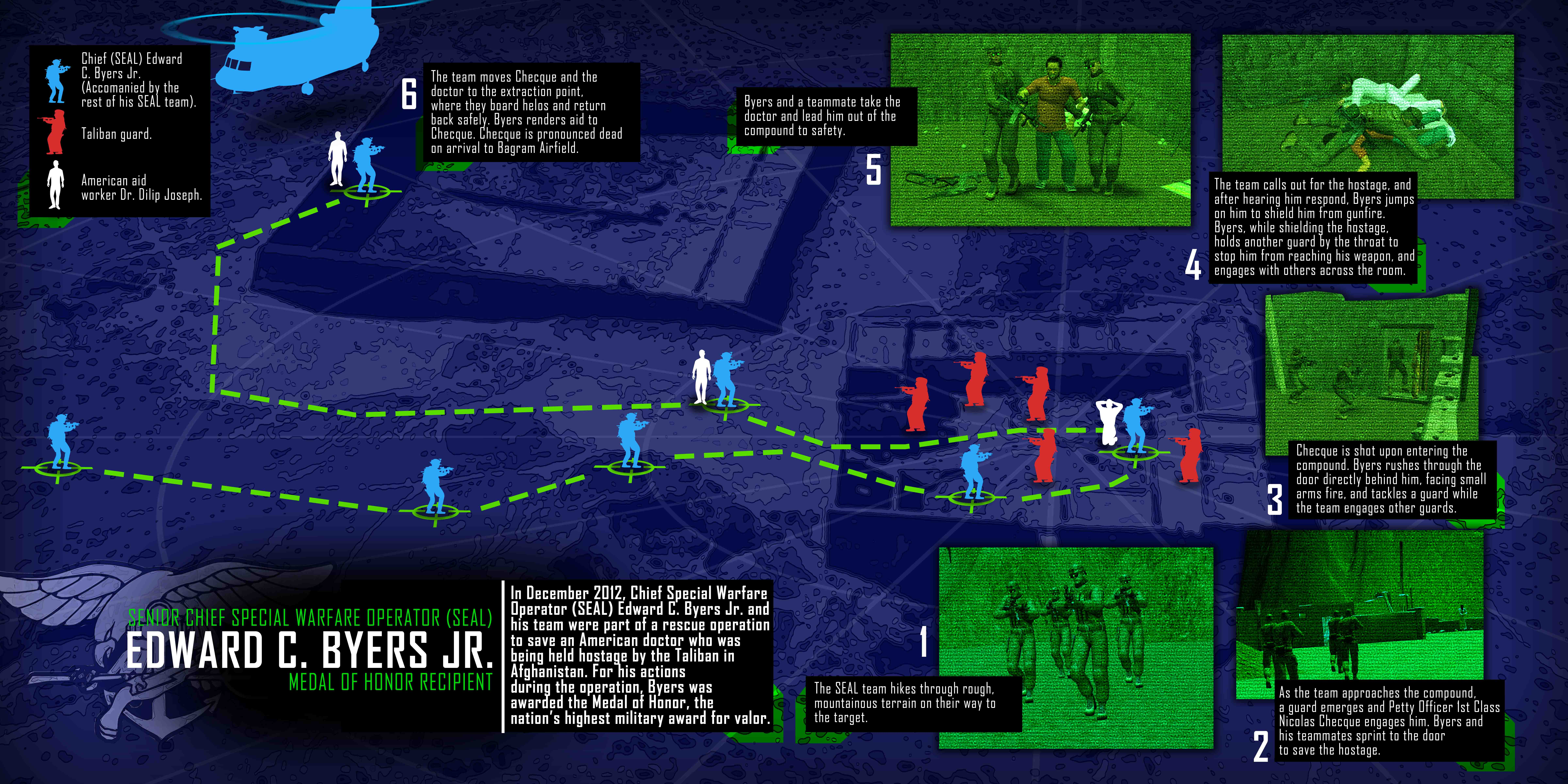 WASHINGTON (Feb. 29, 2016) An information graphic showing the December 2012 rescue mission that led to Senior Chief Special Warfare Operator (SEAL) Edward C. Byers Jr. receiving the Medal of Honor. (U.S. Navy graphic by Austin Rooney/Released) 160229-N-RT381-110 Join the conversation: navylive.dodlive.mil